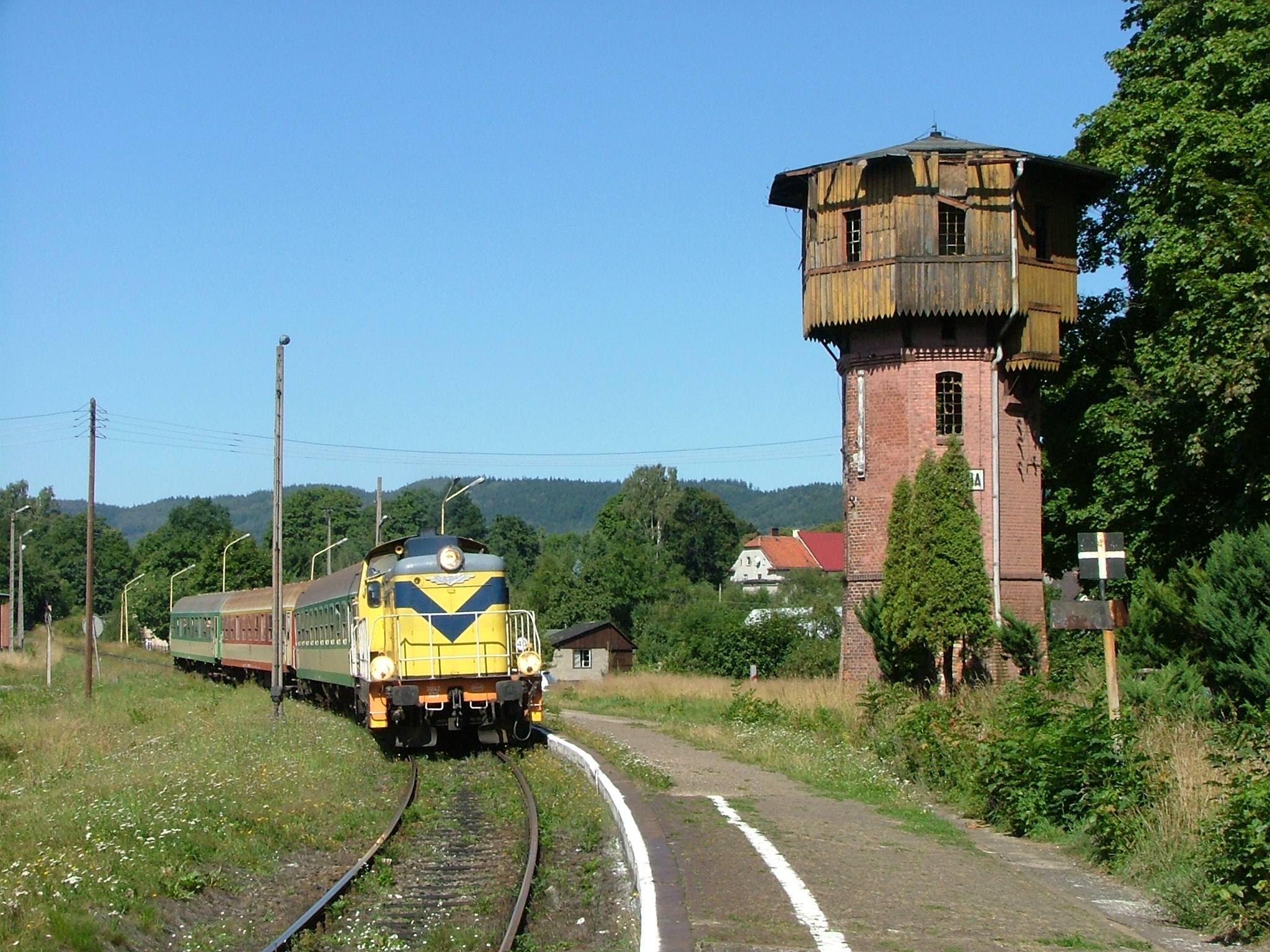 Szczytna train station.